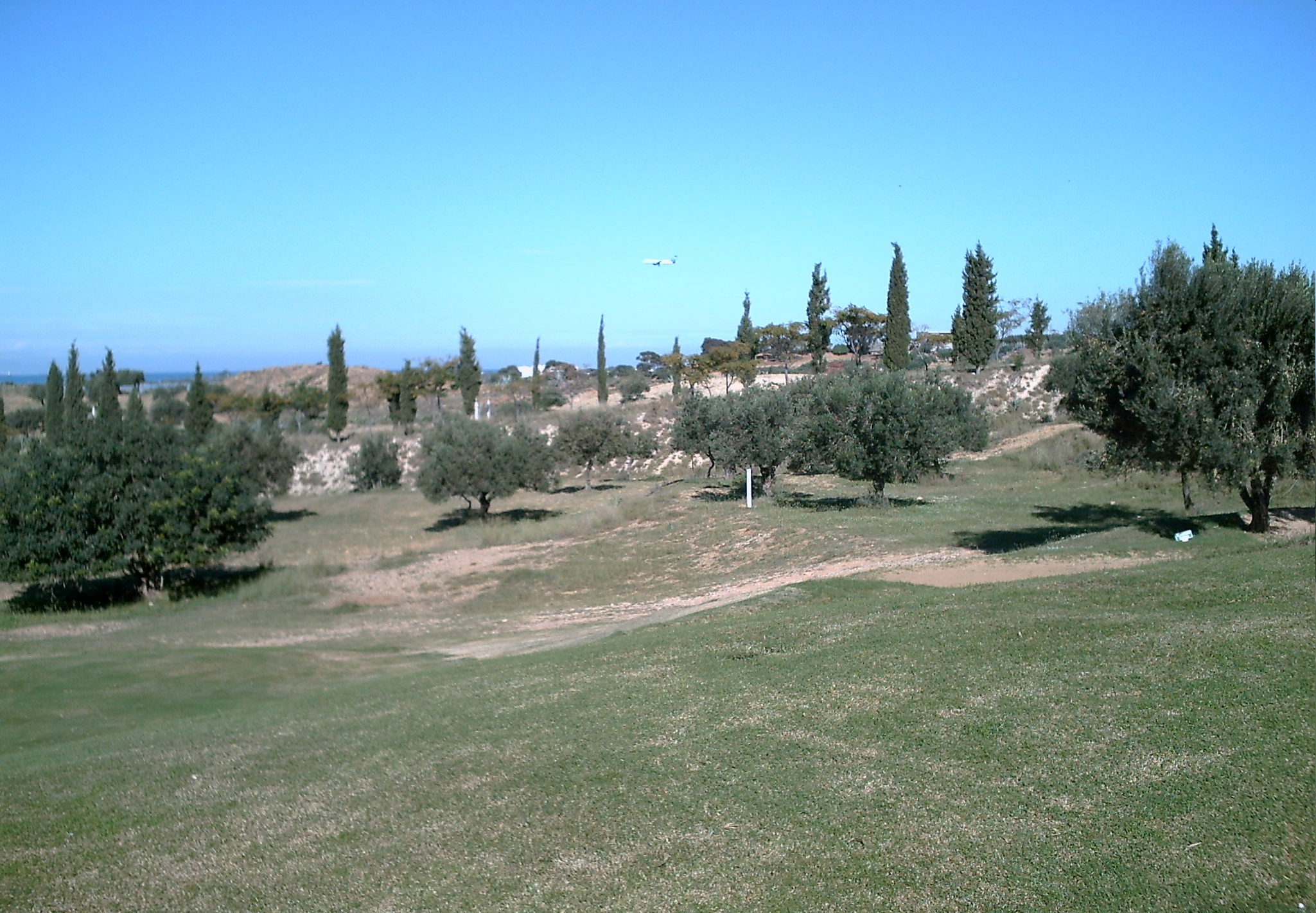 Golf course Flamingo, south of Monastir, Tunisia